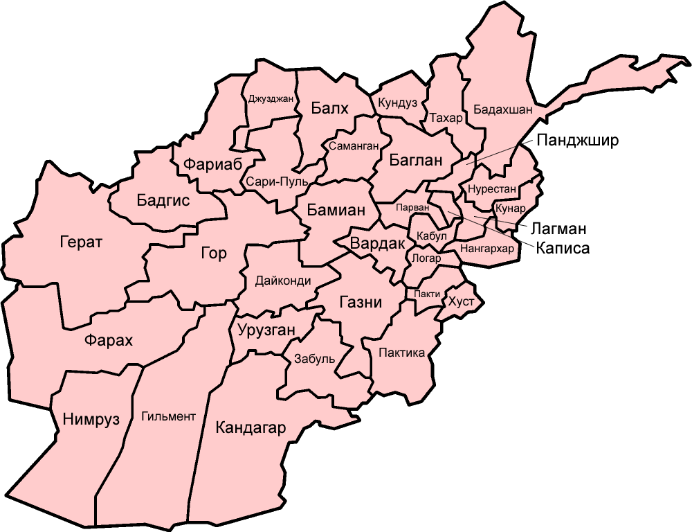 Map of the provinces of Afghanistan in Chuvash, using the list from . If there is anything wrong with this, please contact me.